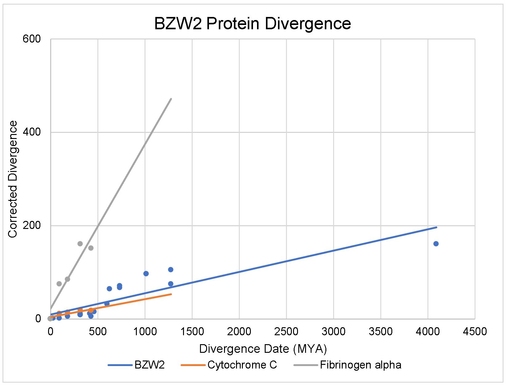 Corrected rate of divergence of BZW2 in relation to Cytochrome C and Fibrinogen